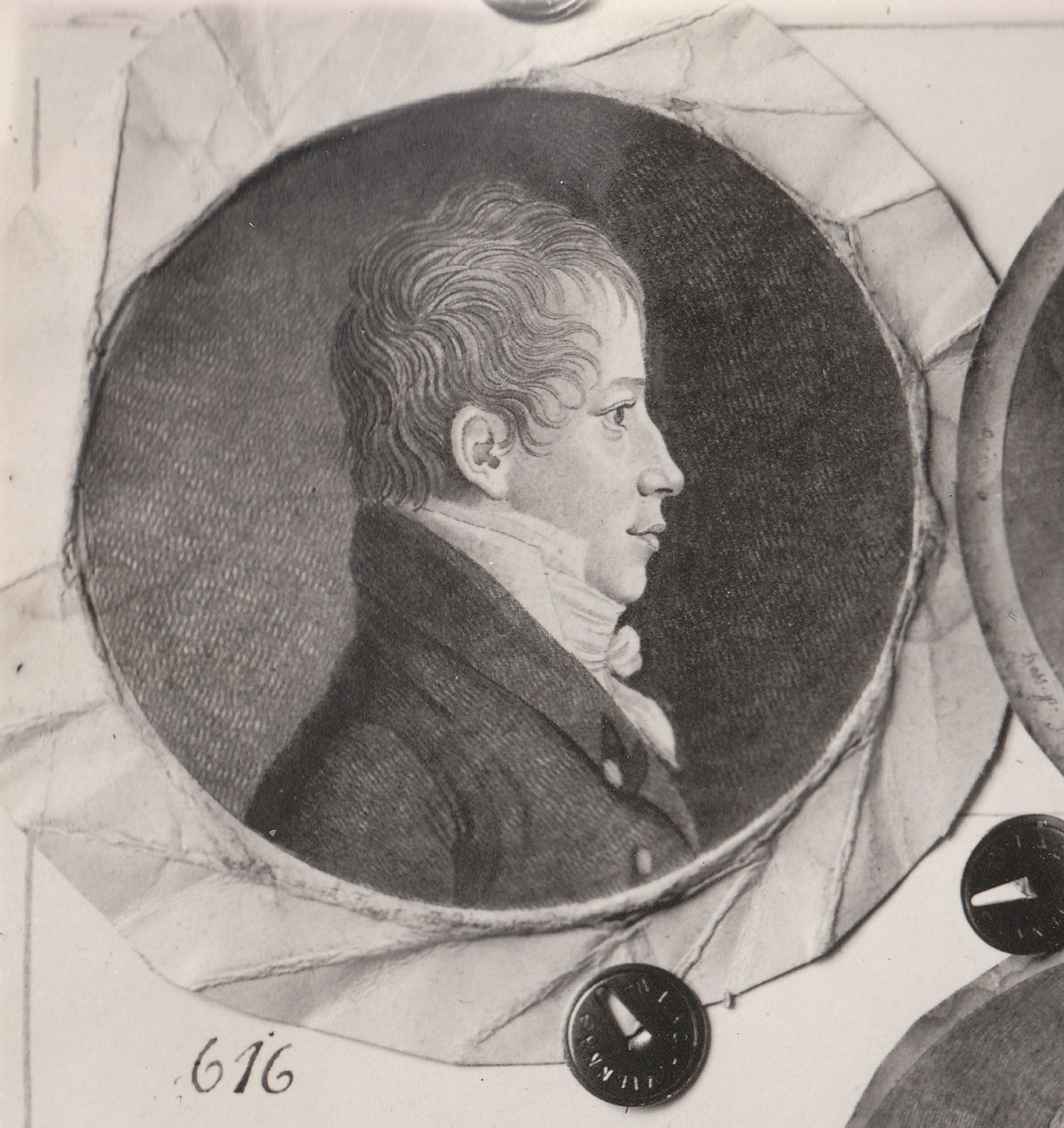 Portrait of Jørgen von Cappelen Knudtzon (1784–1854) by Andreas Flint photographed by Erik Olsen in 1897 in connection with the exhibition Trondhjems 900-årsjubileum (Trondheim`s 900-years anniversary).